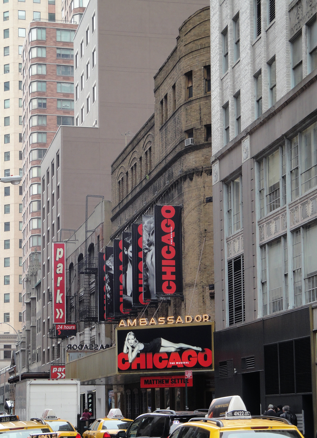 The Ambassador Theatre in New York City. Taken in May 2010. The theater is currently showing Chicago.